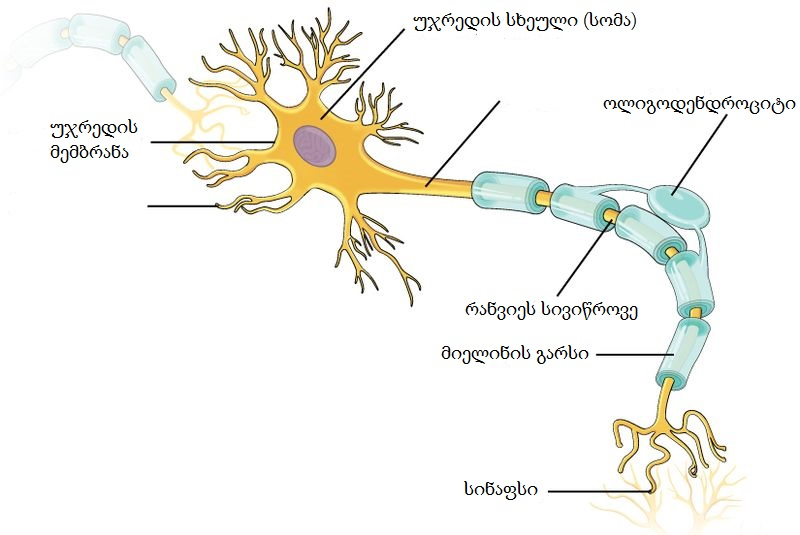 Version 8.25 from the Textbook OpenStax Anatomy and Physiology Published May 18, 2016